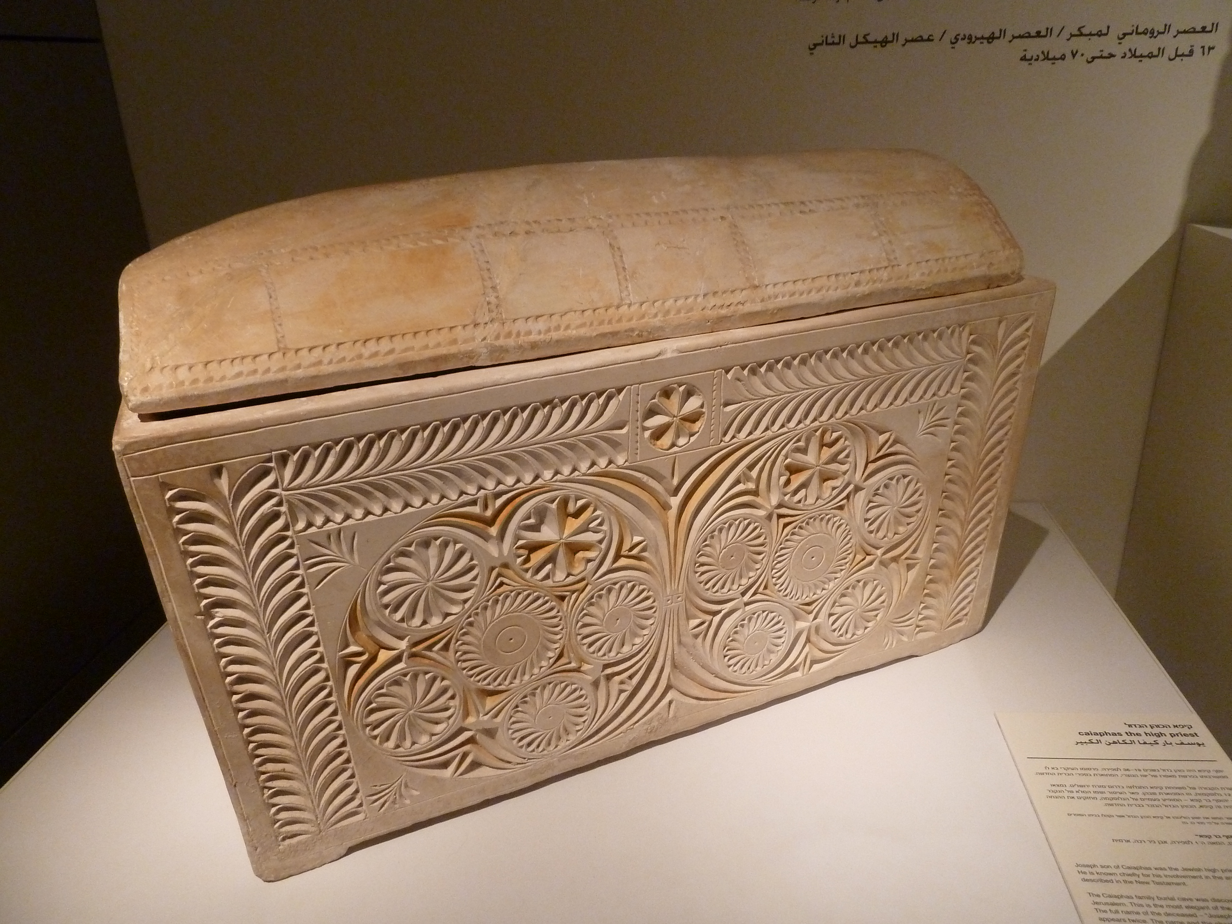 Ossuary of of the high priest, Joseph Caiaphas, was found in Jerusalem in 1990. The Israel Museum, jerusalem